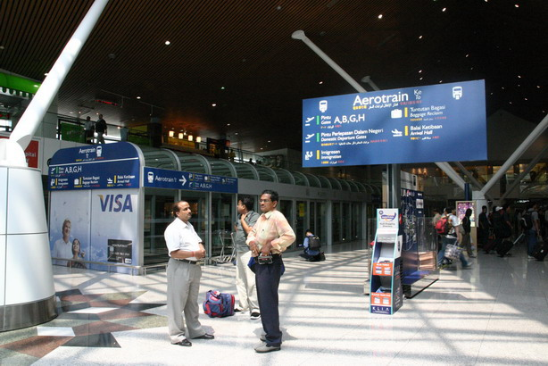 Aerotrain inside the terminal, KL International Airport - KLIA in KL, Malaysia